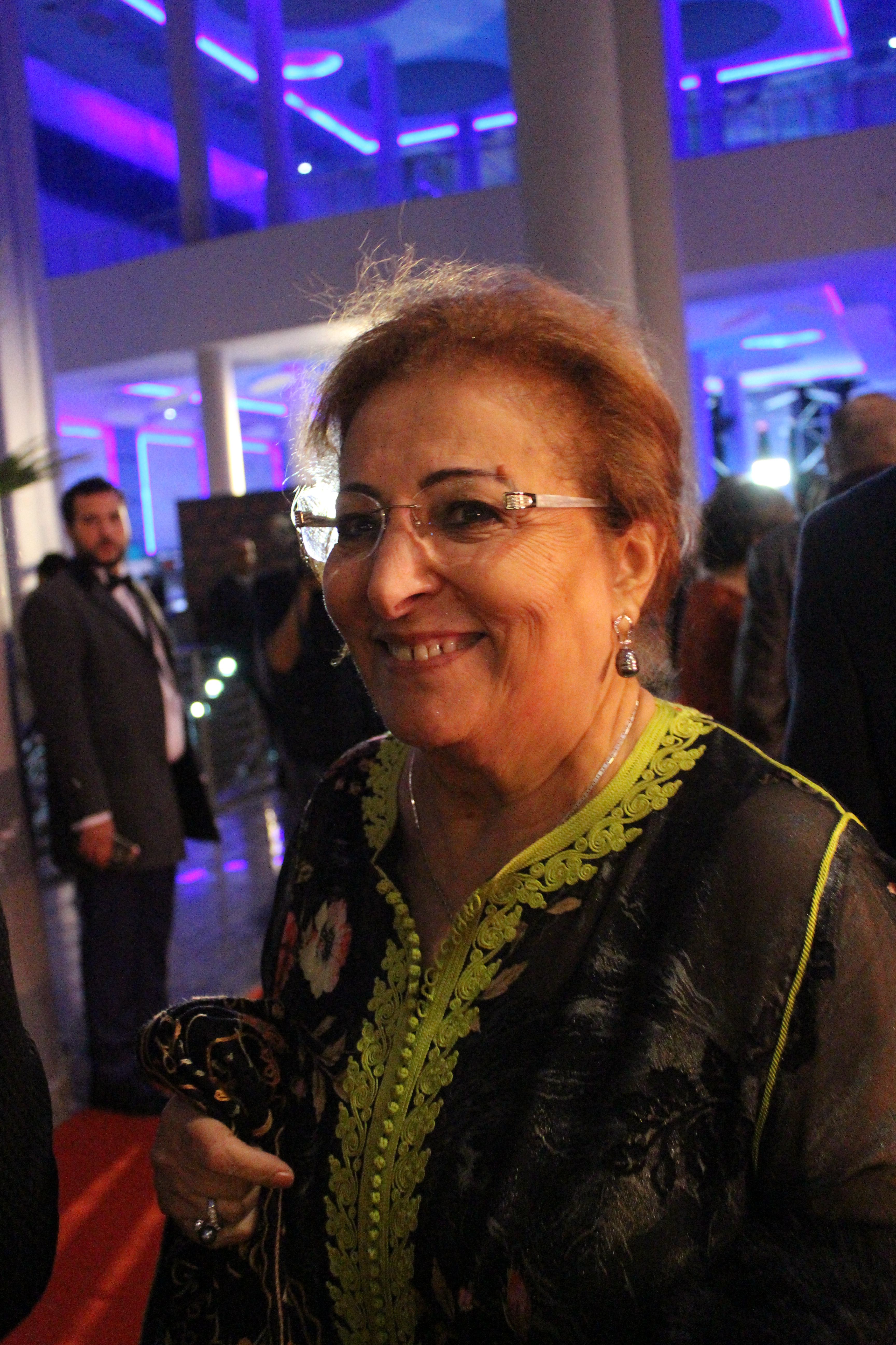 Opening ceremony of the 2018 Carthage Film Festival